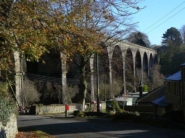 Ingleton Viaduct This was part of the original route from Settle northwards which the Midland Railway wanted, but was part of the London and North Western Railway. No amicable agreement could ever be reached between the two companies, and eventually the Midland Railway solved the problem by building the Settle and Carlisle line. The Ingleton route was forever destined to be a backwater and closed to passenger traffic in 1954.